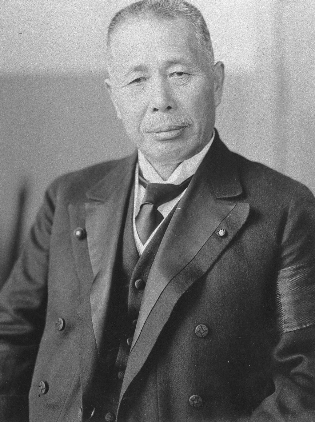 Portrait of Tanaka Giichi (田中義一, 1864 – 1929)